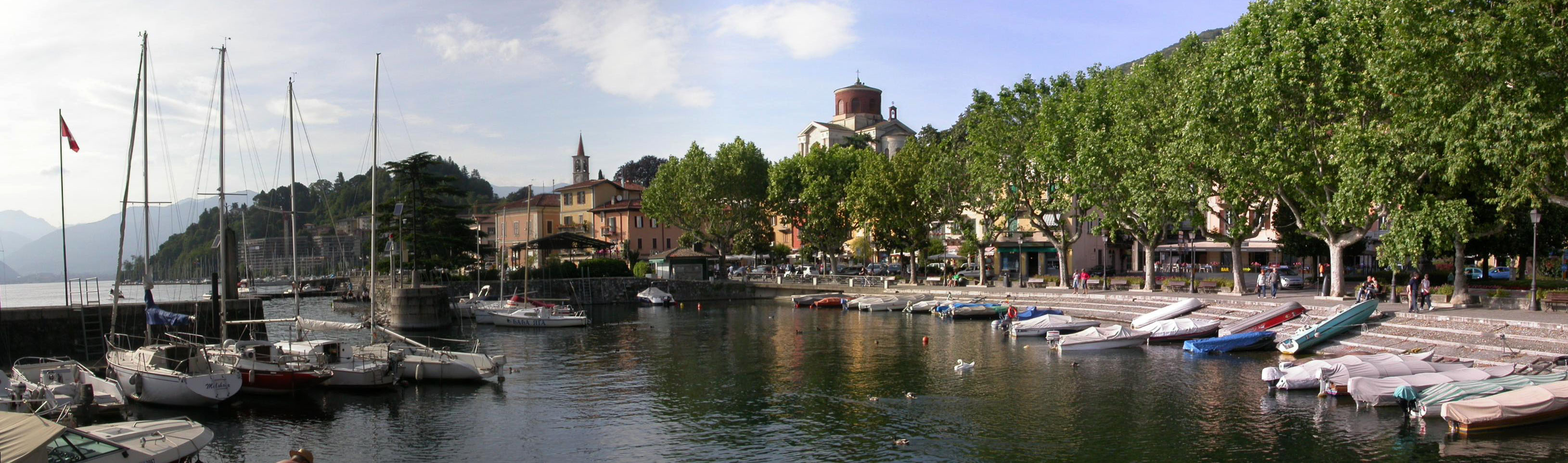 A panoramic view of the harbor at Laveno Mombello, June 2013